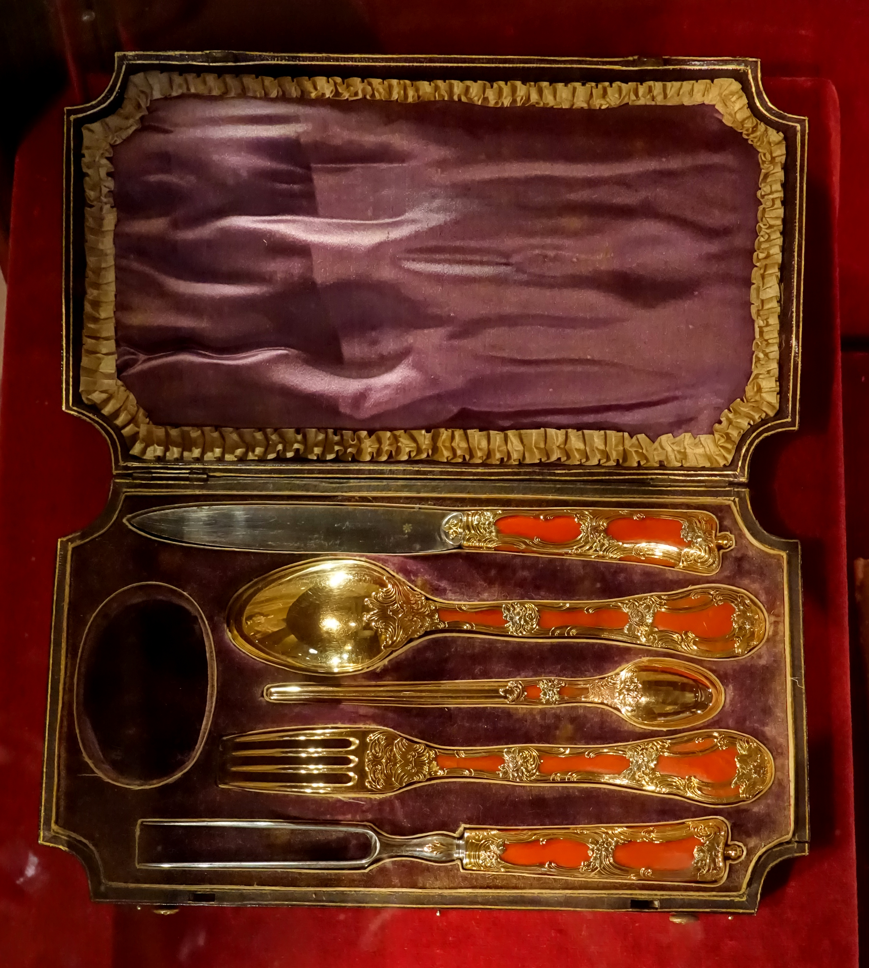 Item displayed in Chatsworth House - Derbyshire, England.